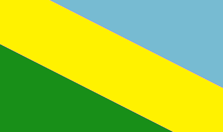 Bandera de pimampiro